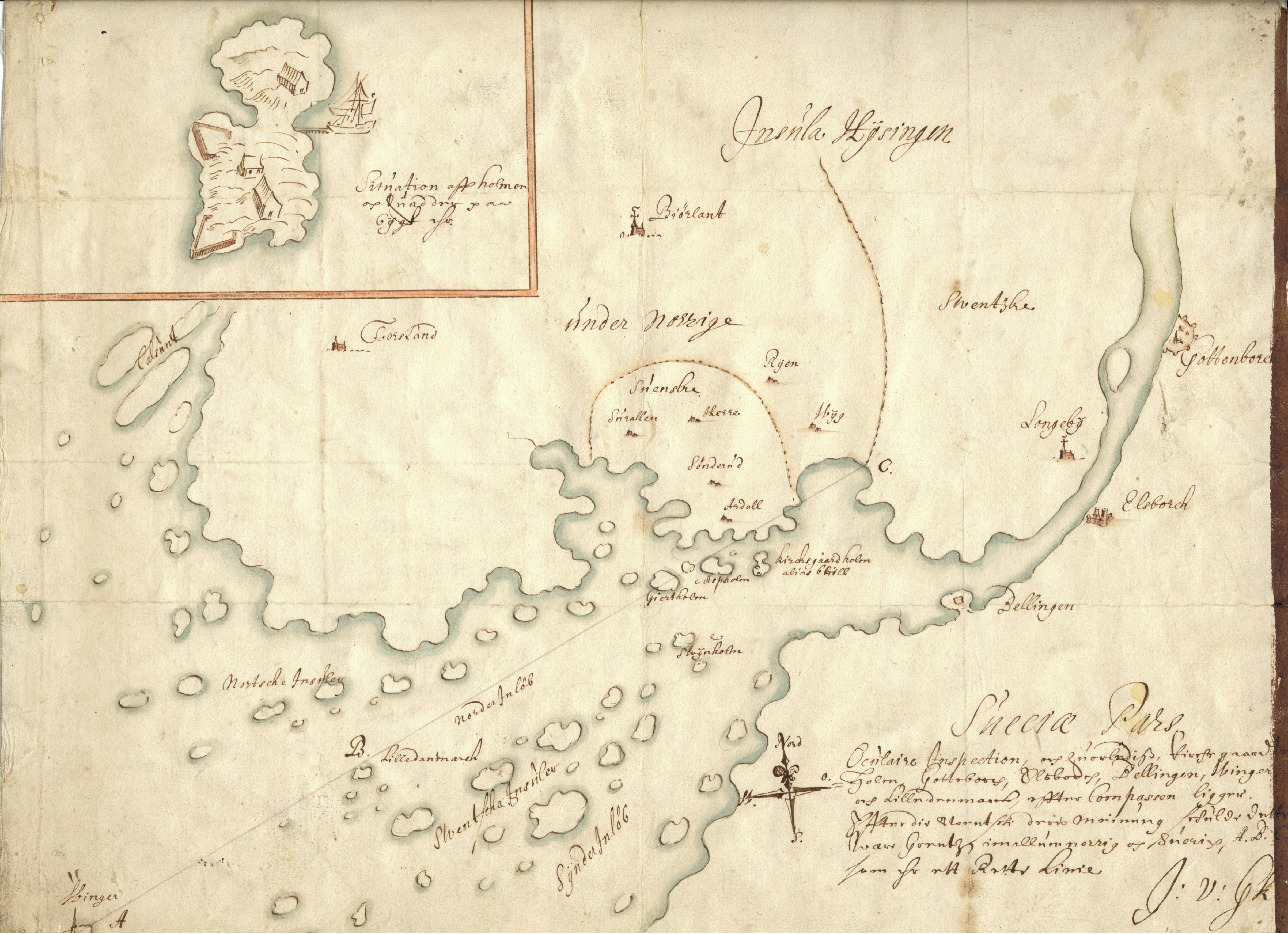 Map showing the Göta älv river mouth, made by the Dutch military engineer and cartographer in Danish-Norwegian service, Isaac van Geelkerck. In upper left corner is a drawing of the temporary Swedish defence works at Kyrkogårdsholmen, later expanded as fortress Nya Älvsborg. Northern and western part of the island Hisingen, was Norwegian territory until 1658.